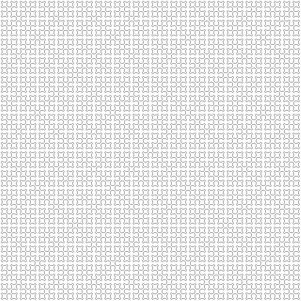 Sierpinski Curve L6